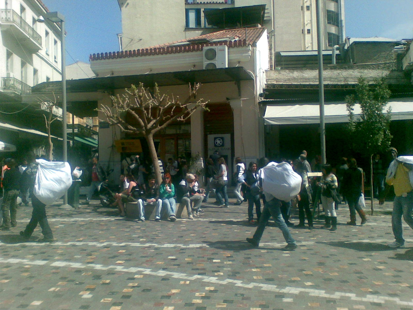 Black immigrants - sellers in Monastiraki, Athens, Greece.